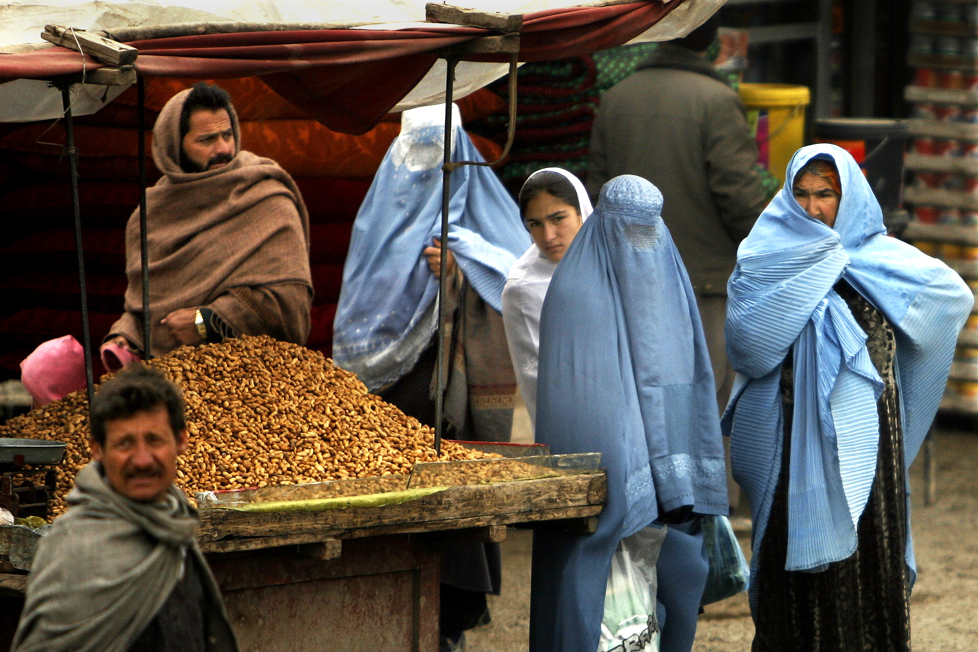 Afghan women interrupt their shopping to watch a photographer.